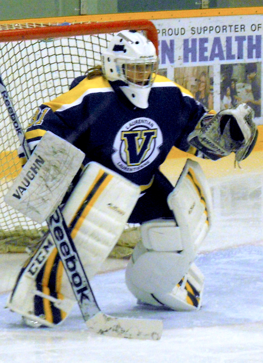 Photo taken by Devan Mighton of CIS women's hockey 2013-14.